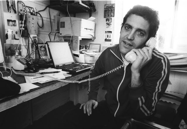 Sam Green - San Francisco-based documentary filmmaker posing for picture. Photo credit: Sean White.